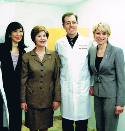 Andrea Jung and Dr. Pestell with Laura Bush at the Breast Cancer Care Center in Washington D.C.